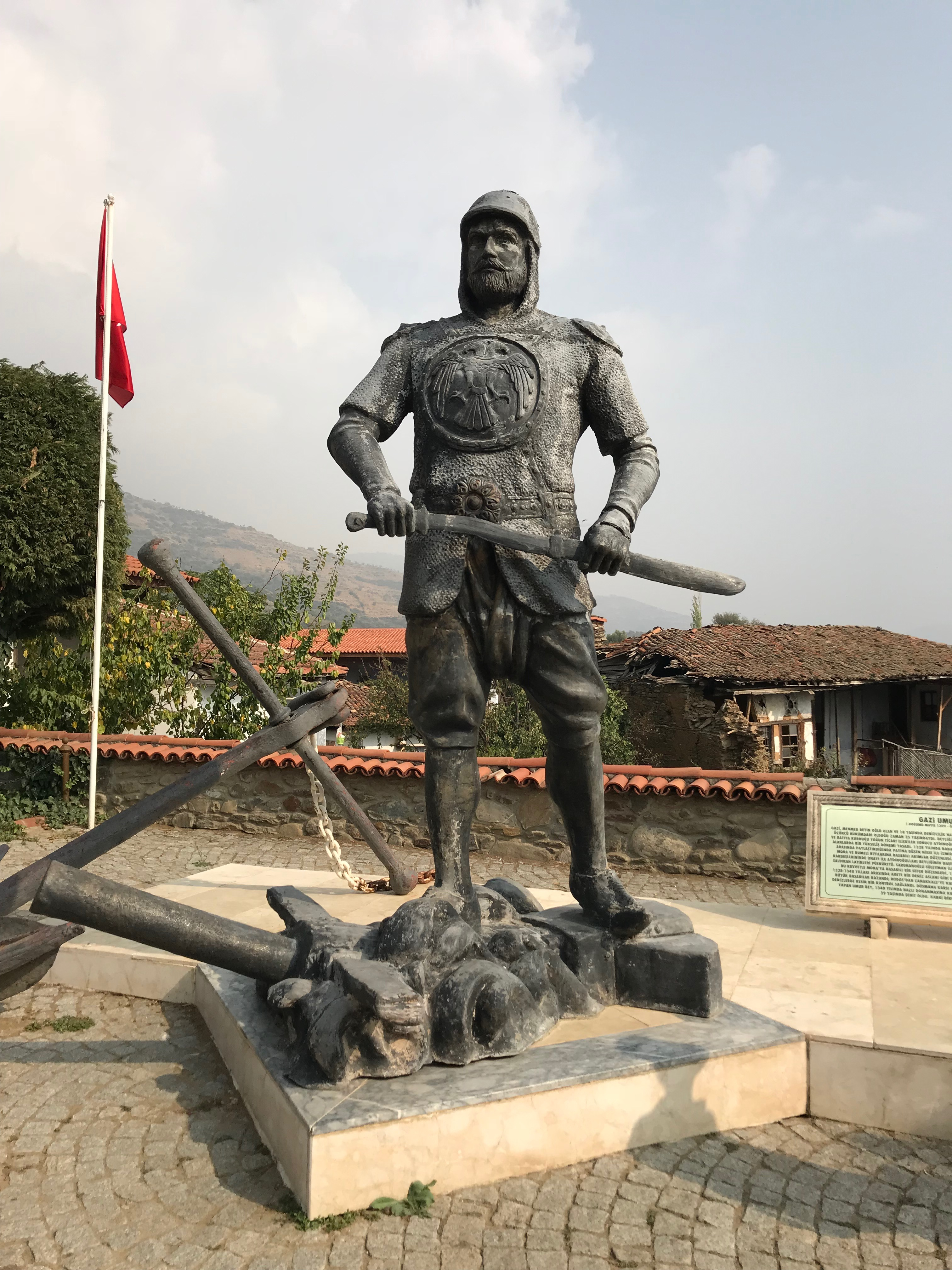 Statue of Umur Bey in Birgi, Ödemiş, Turkey.